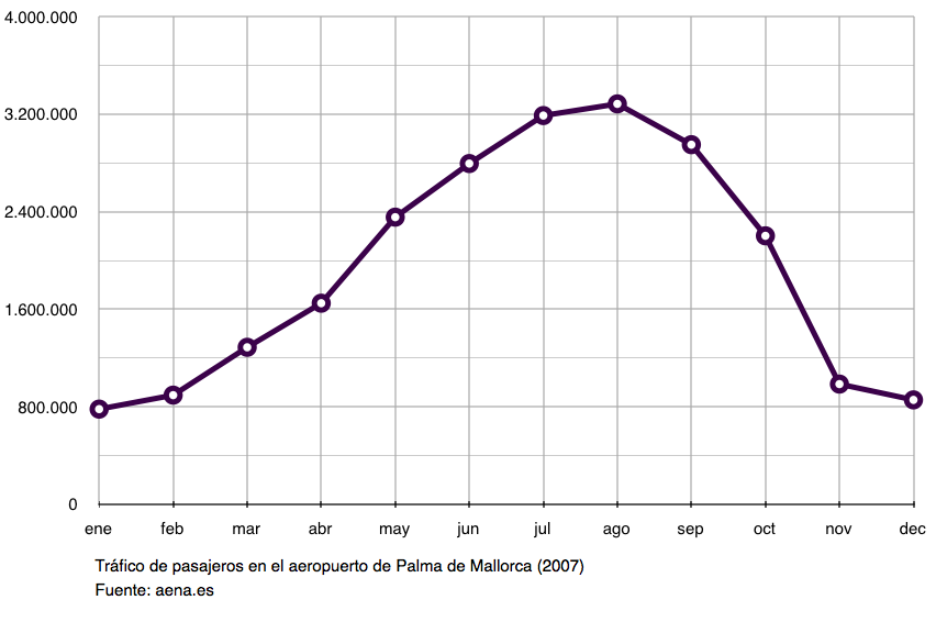 Passenger traffic at Palma de Mallorca airport (PMI) in 2007. Source: aena.es